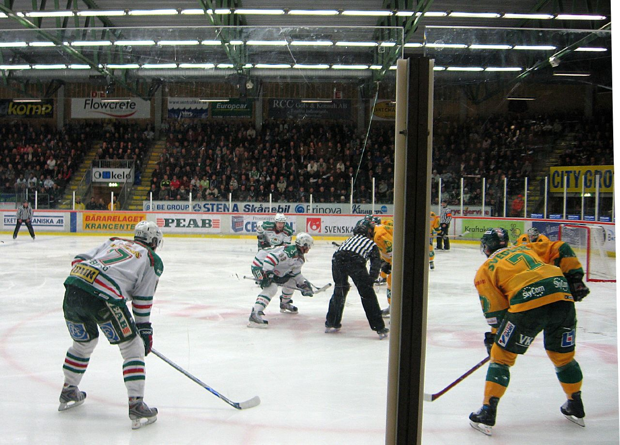 Face-off in an Allsvenskan game between Rögle BK and IF Björklöven (4-0) in Ängelholm, Sweden